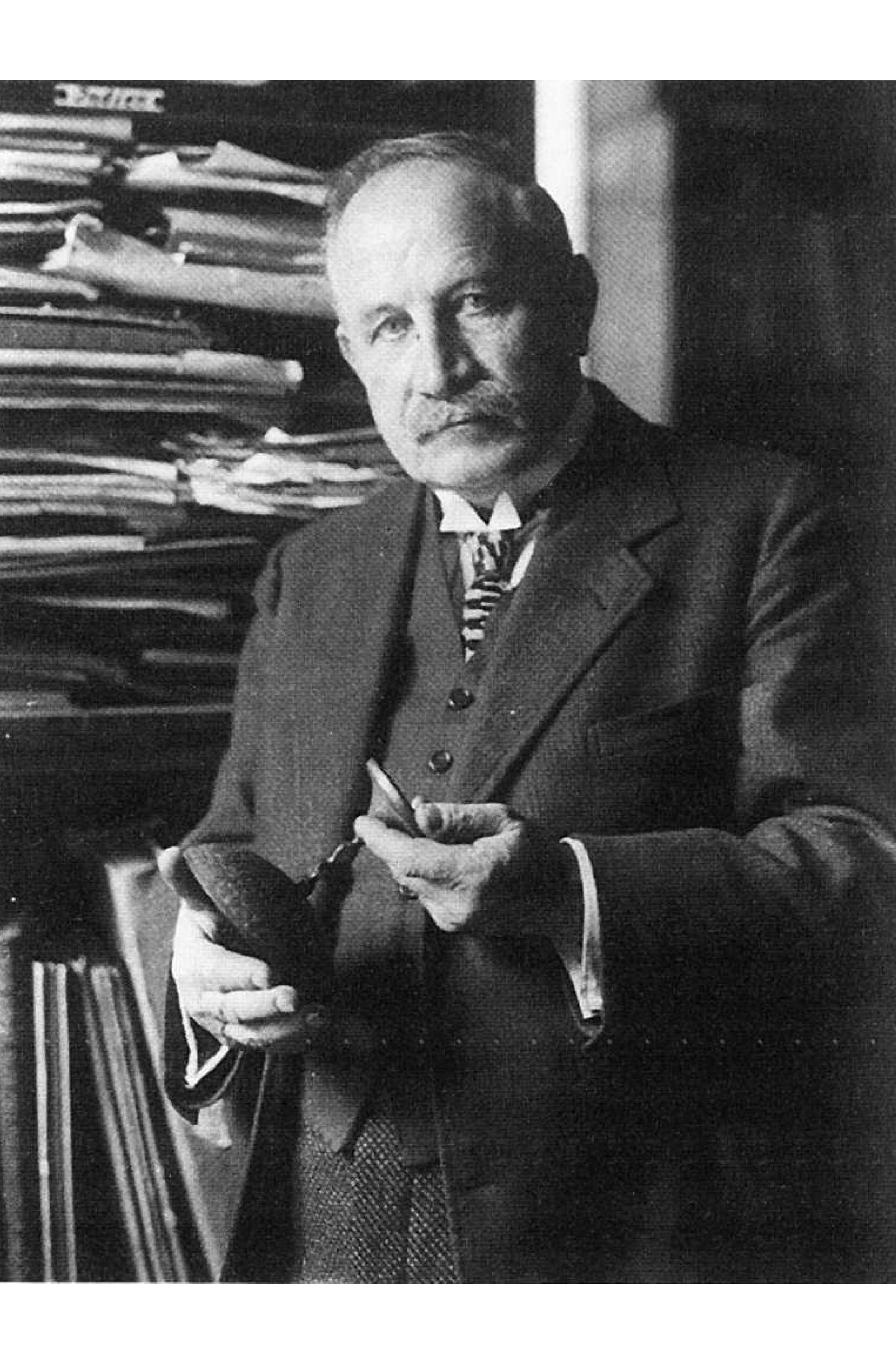 Josef Strzygowski (March 7, 1862 – January 2, 1941) was a Polish-Austrian art historian known for his theories promoting influences from the art of the Near East on European art, for example that of Early Christian Armenian architecture on the early Medieval architecture of Europe